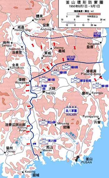 Map of the Pusan Perimeter, August 1950.